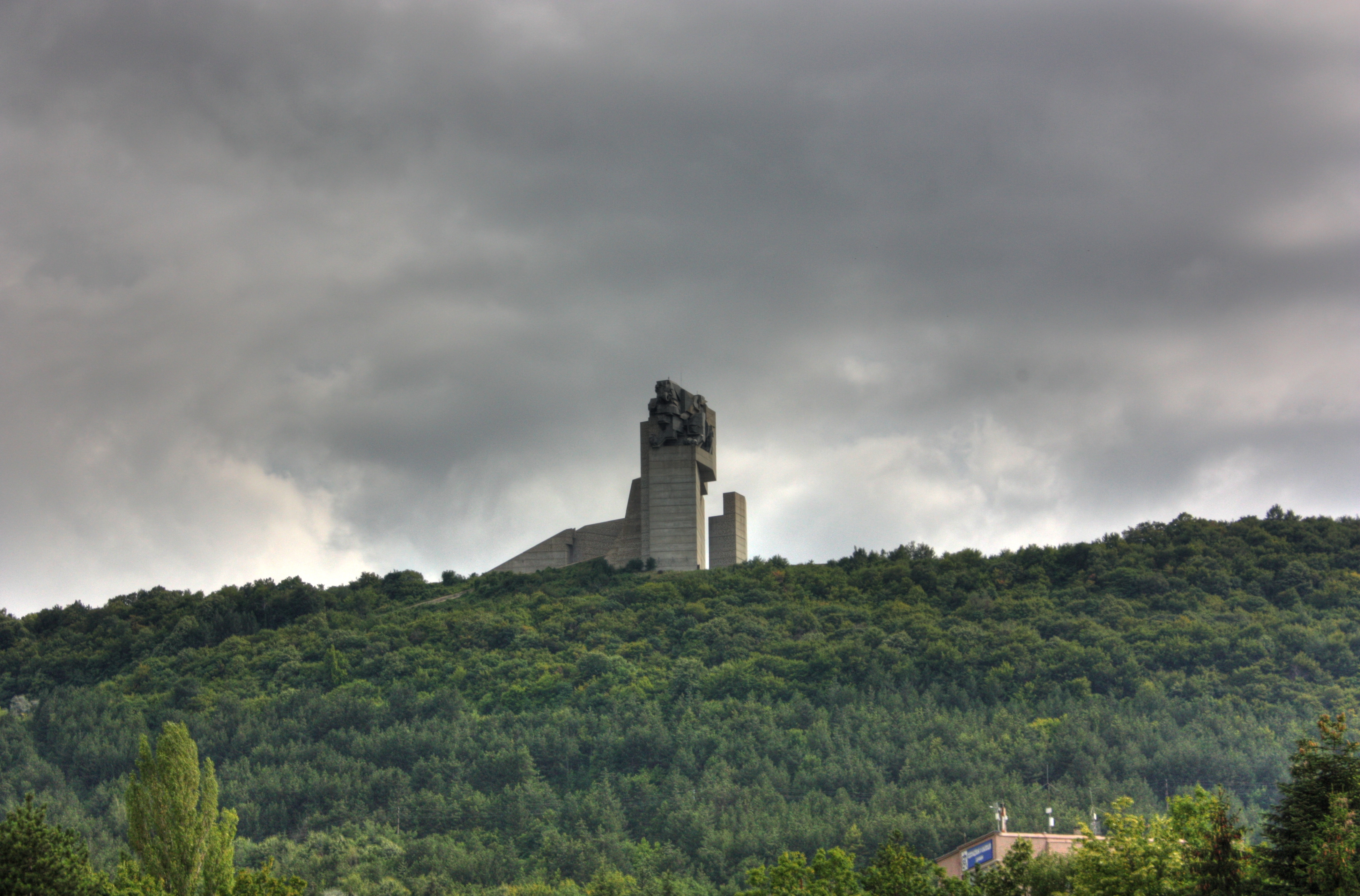 Monument to 1300 years of Bulgaria, view from the city